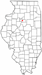 Category:Illinois_city_locator_maps Summary Location of Lacon within Marshall County and Illinois.